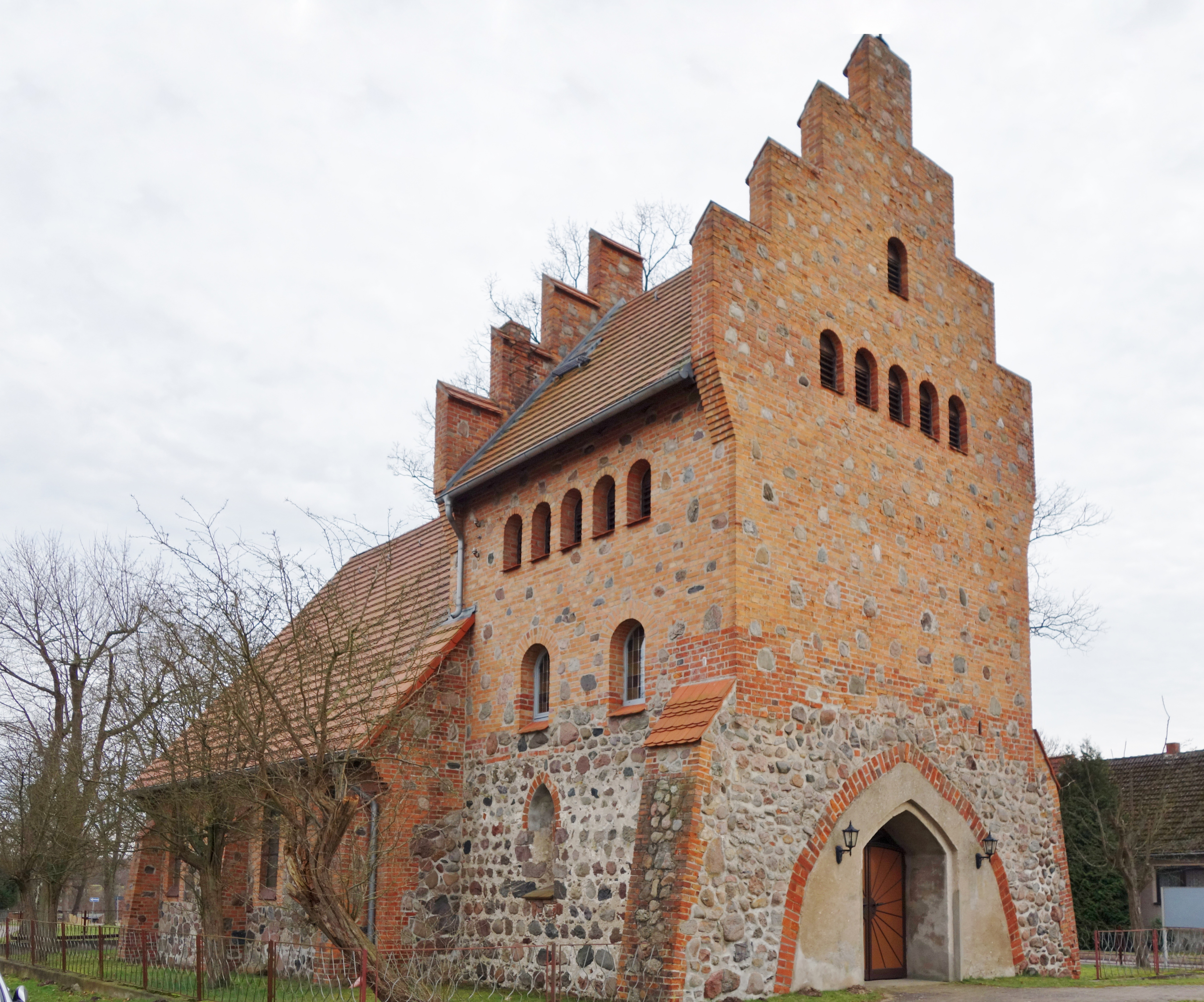 North-western view of Katerbow village church, Temnitzquell municipality, Ostprignitz-Ruppin district, Brandenburg state, Germany